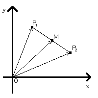 Illustration of two dots forming a line, with a dot M in the middle of them. Vectors from O reach the dots. Used for an article about the "middle point formula" (don't know the english name for it, sorry) It should be .svg, but I don't know how to make those :p